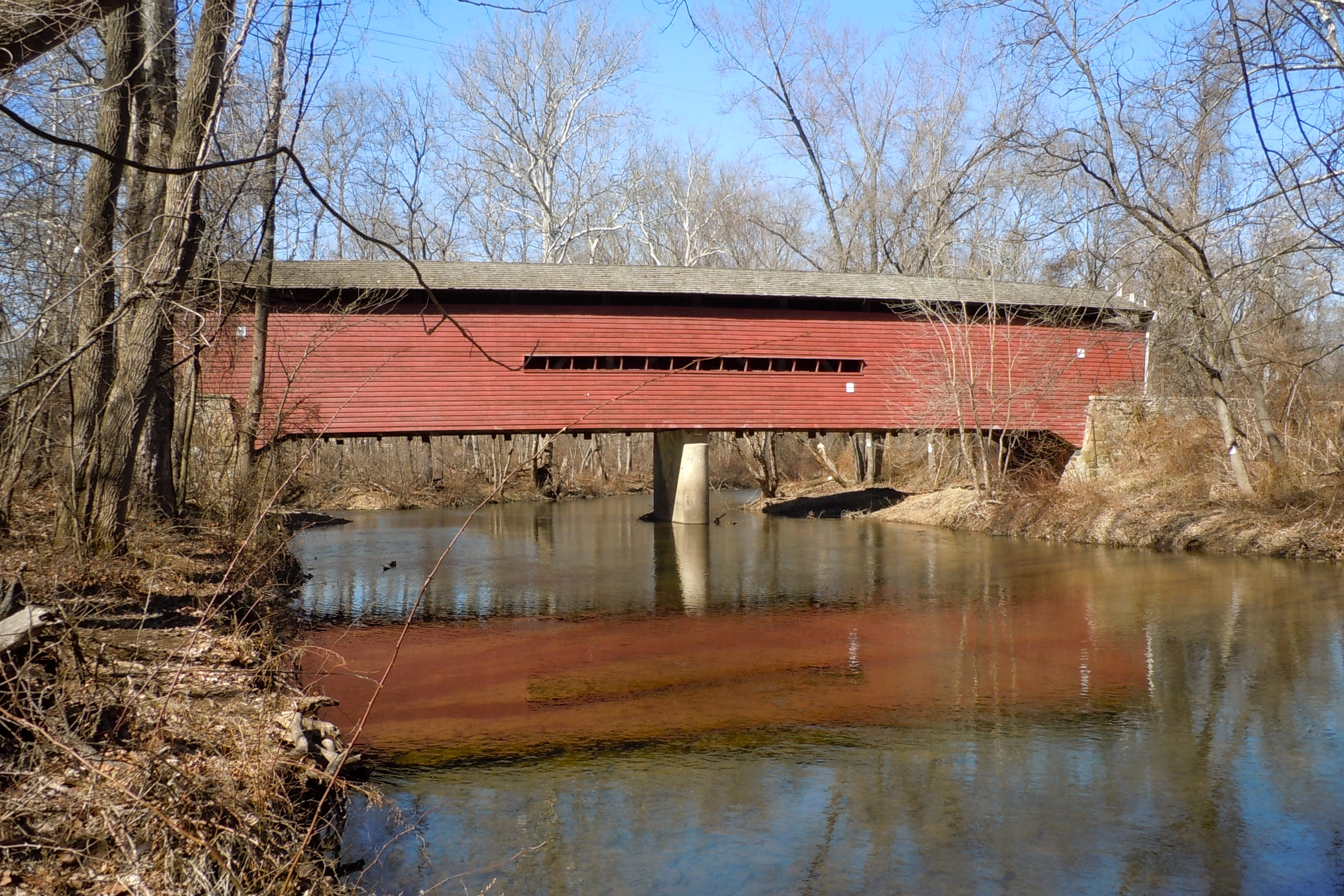 Hall's Bridge (Sheeder Hall Bridge) on the NRHP since April 23, 1973. About 3 miles (4.8 km) north of Chester Springs at Sheeder Road and Birch Run spanning East and West Vincent Townships, Chester County, Pennsylvania